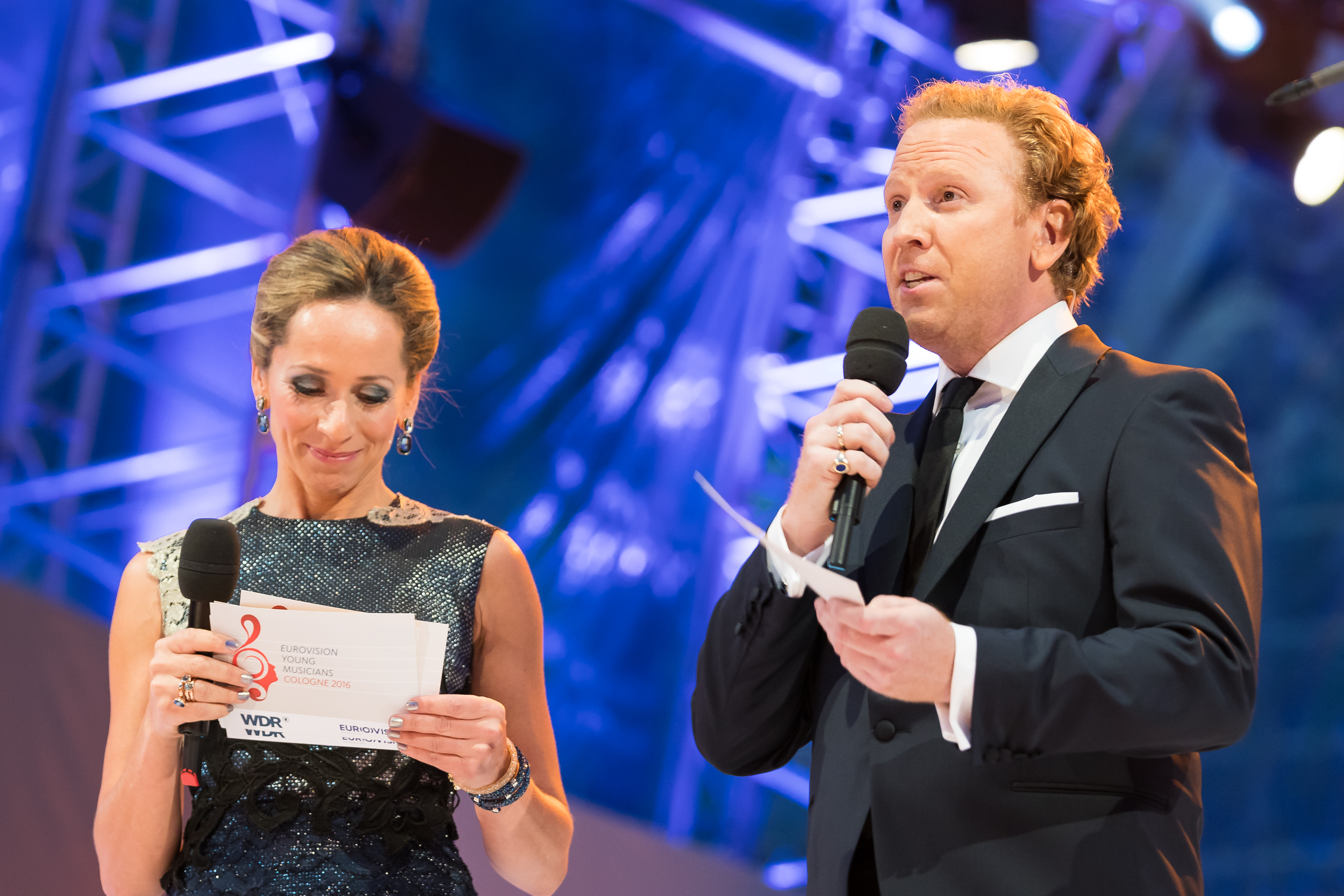 Eurovision Young Musicians 2016 in Cologne, Rehearsal on September 2nd 2016: Daniel Hope and Tamina Kallert